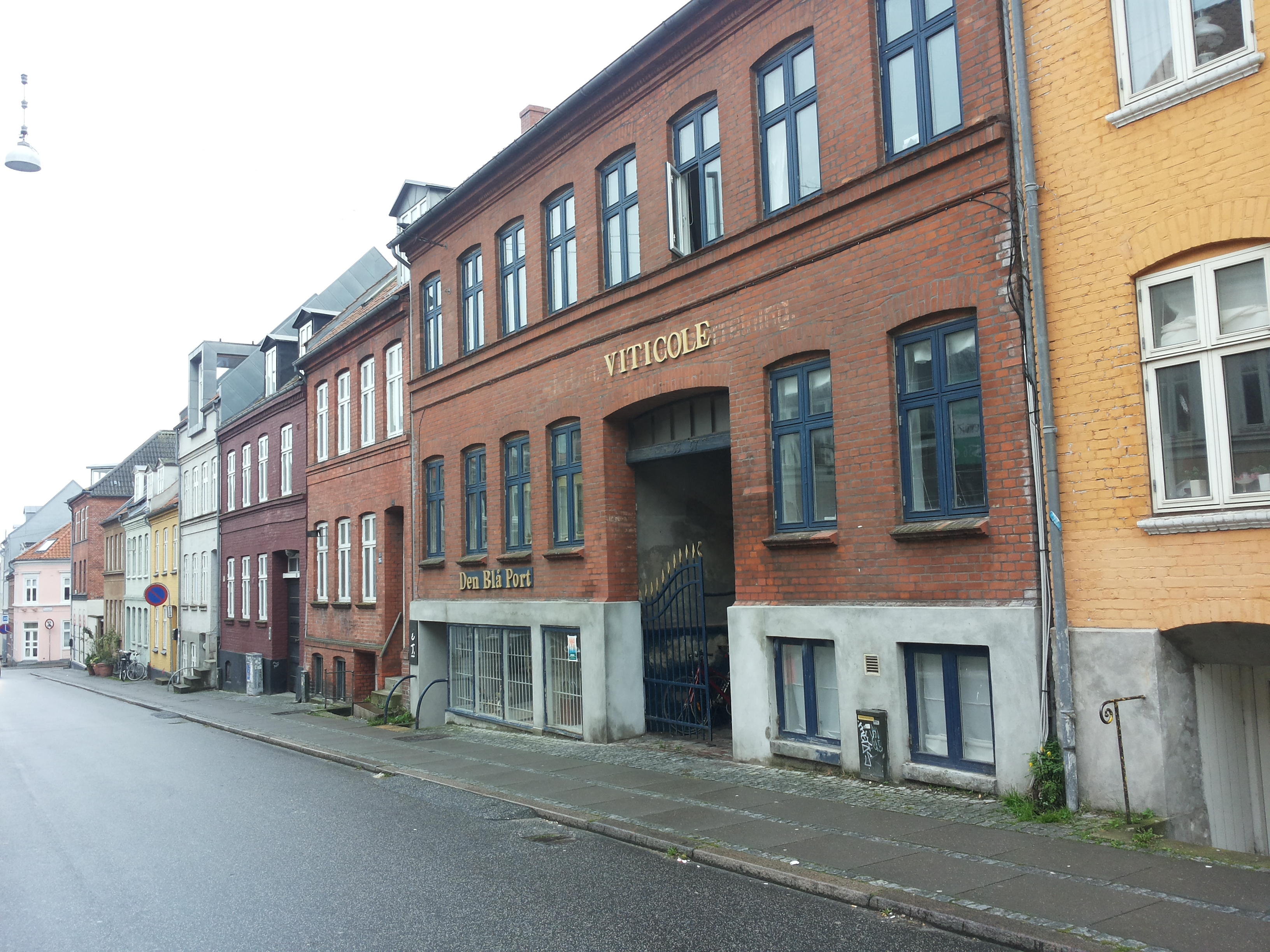 Sjællandsgade